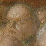 Richard Tapper Cadbury. Draper. He was va leading liberal in Birmingham. They attended the international anti-slavery convention in London, England. Note this is an extract from a much larger painting. [ The Anti-Slavery Society Convention], 1840, Benjamin Robert Haydon , accessed 19 July 2008